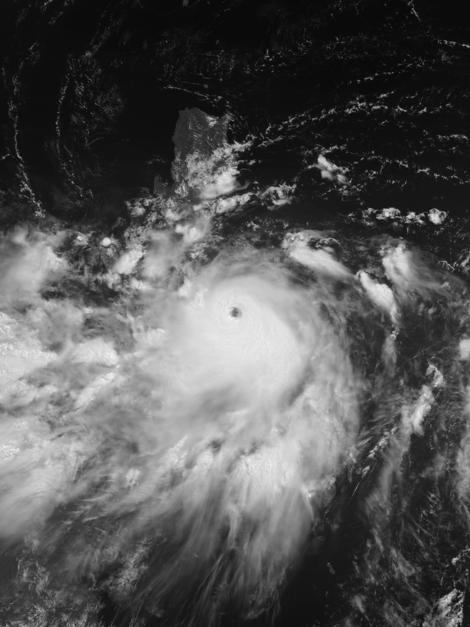 The Japan Meteorological Agency’s MTSAT-1R satellite captured this visible imagery at 02:30 Coordinated Universal Time (10:30 Philippine Standard Time) on June 21, 2008, featuring Typhoon Fengshen (Frank) at peak intensity and over the Sibuyan Sea.